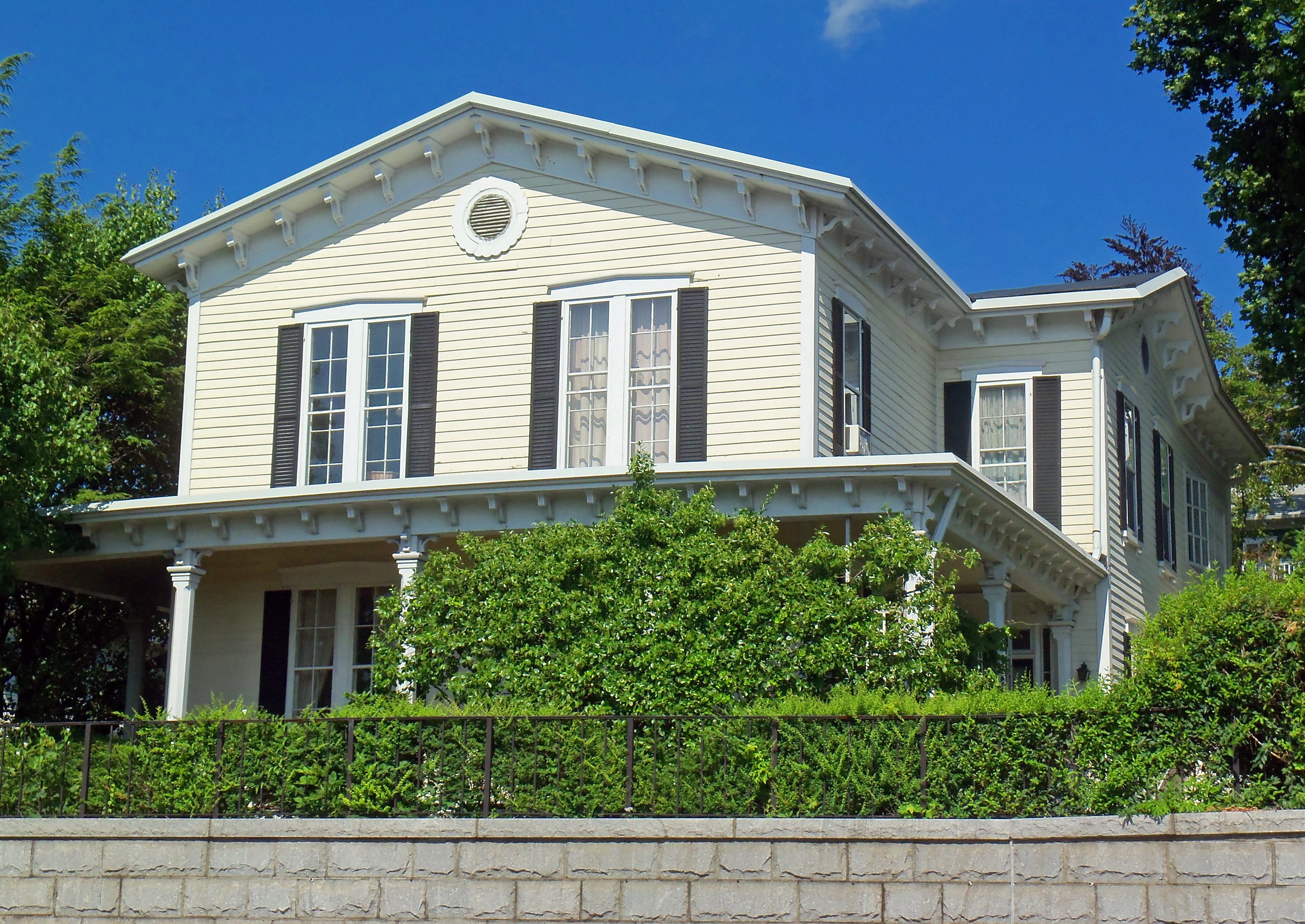 House at 23 Highland Avenue (US 9), Ossining, NY, USA. It is the oldest building in the Downtown Ossining Historic District